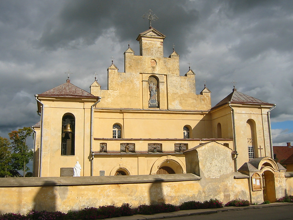 Photo of Linkuva church.